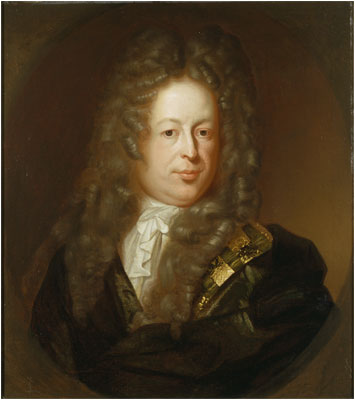 John Lowther, 1st Viscount Lonsdale (1655-1700)